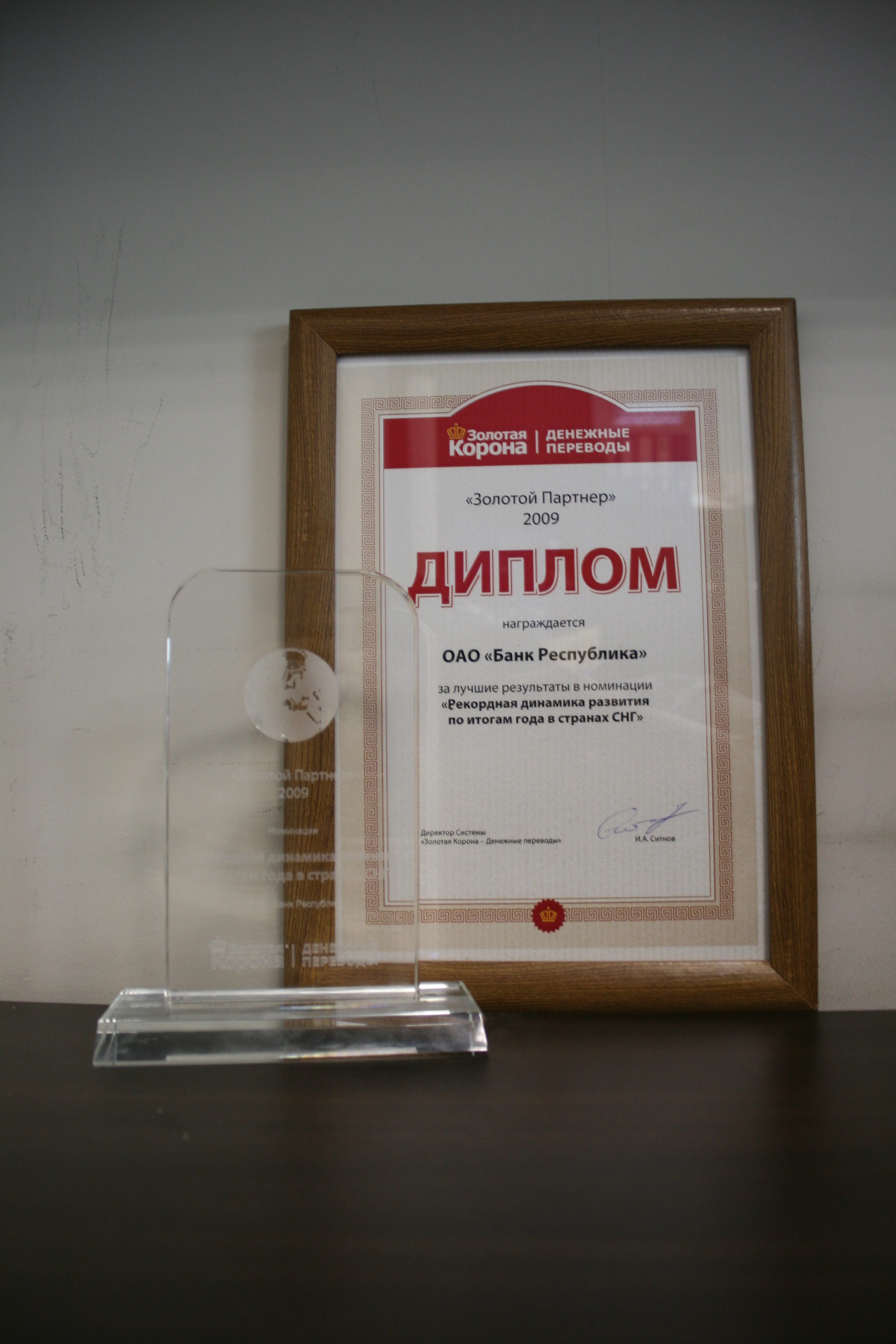 Zolotaya Korona money transfer system has announced Bank Respublika the Gold Partner by the results of 2009